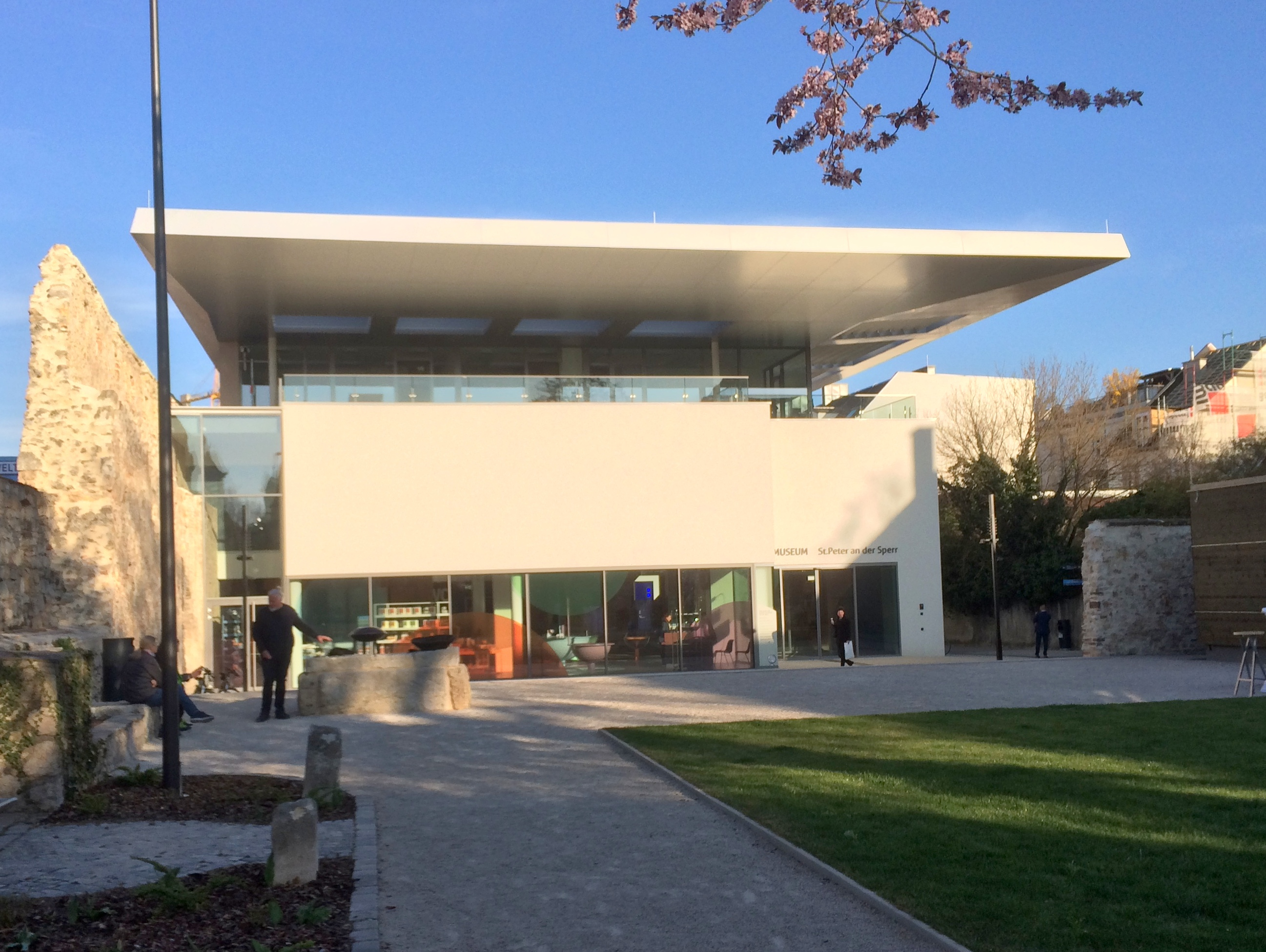 St Peter an der Sperr Museum in Wiener Neustadt, Lower Austria (formerly Town Museum).